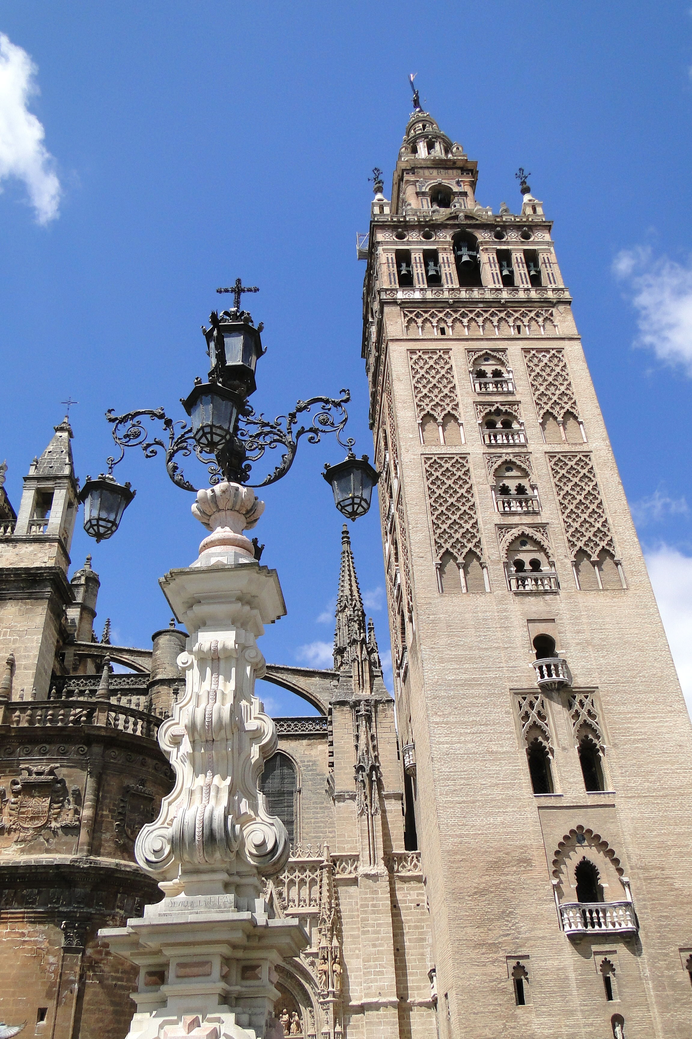 Cathedral with Giralda Tower - Seville - Spain